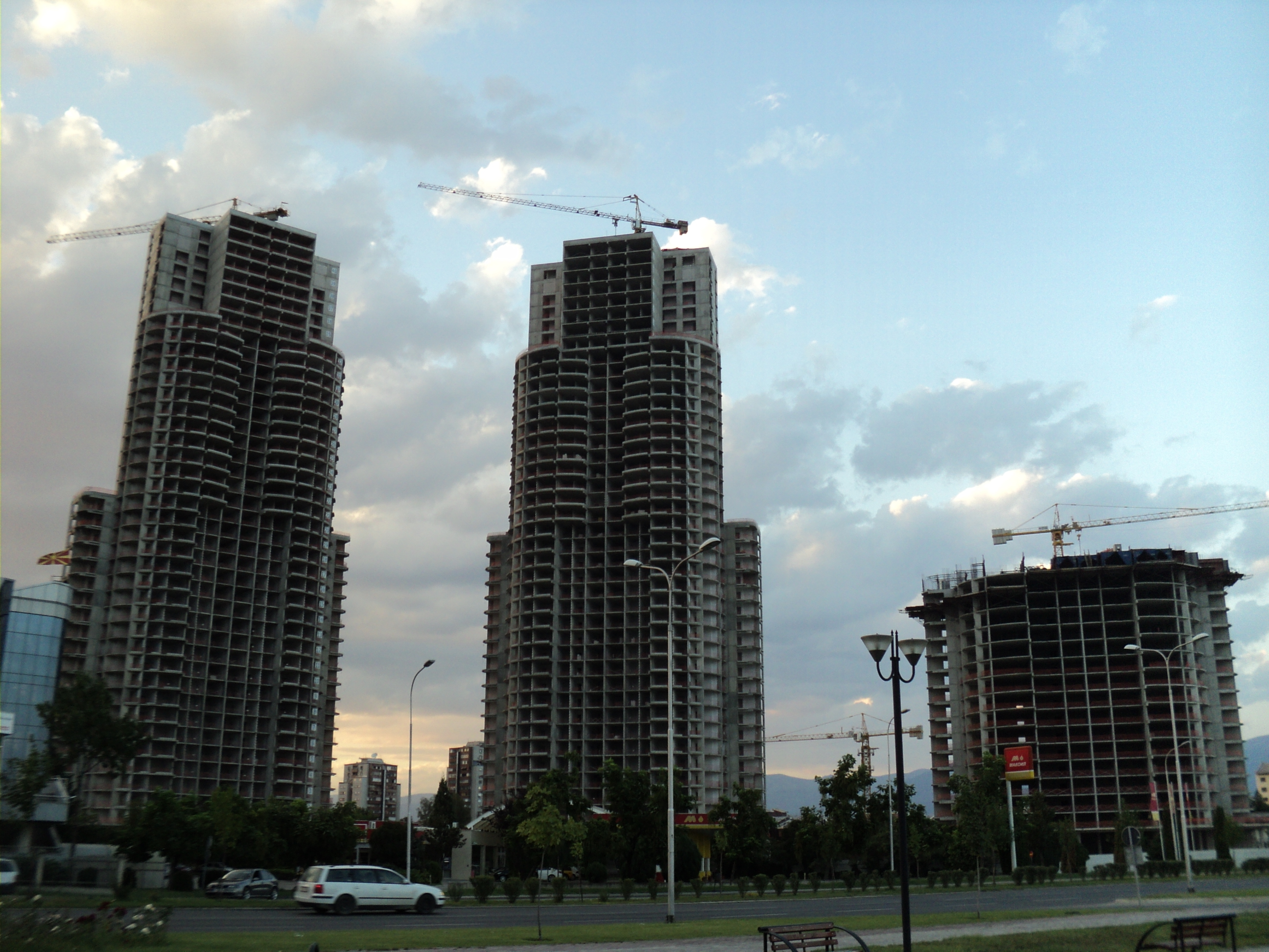 The under-construction Cevahir Towers in Skopje as of August 2014.